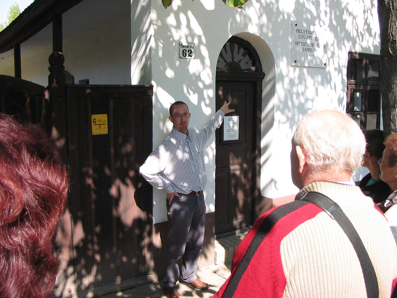 Nándor Rezsabek, Hungarian astronomer.